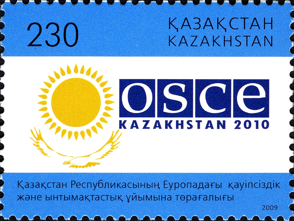 Stamps of Kazakhstan